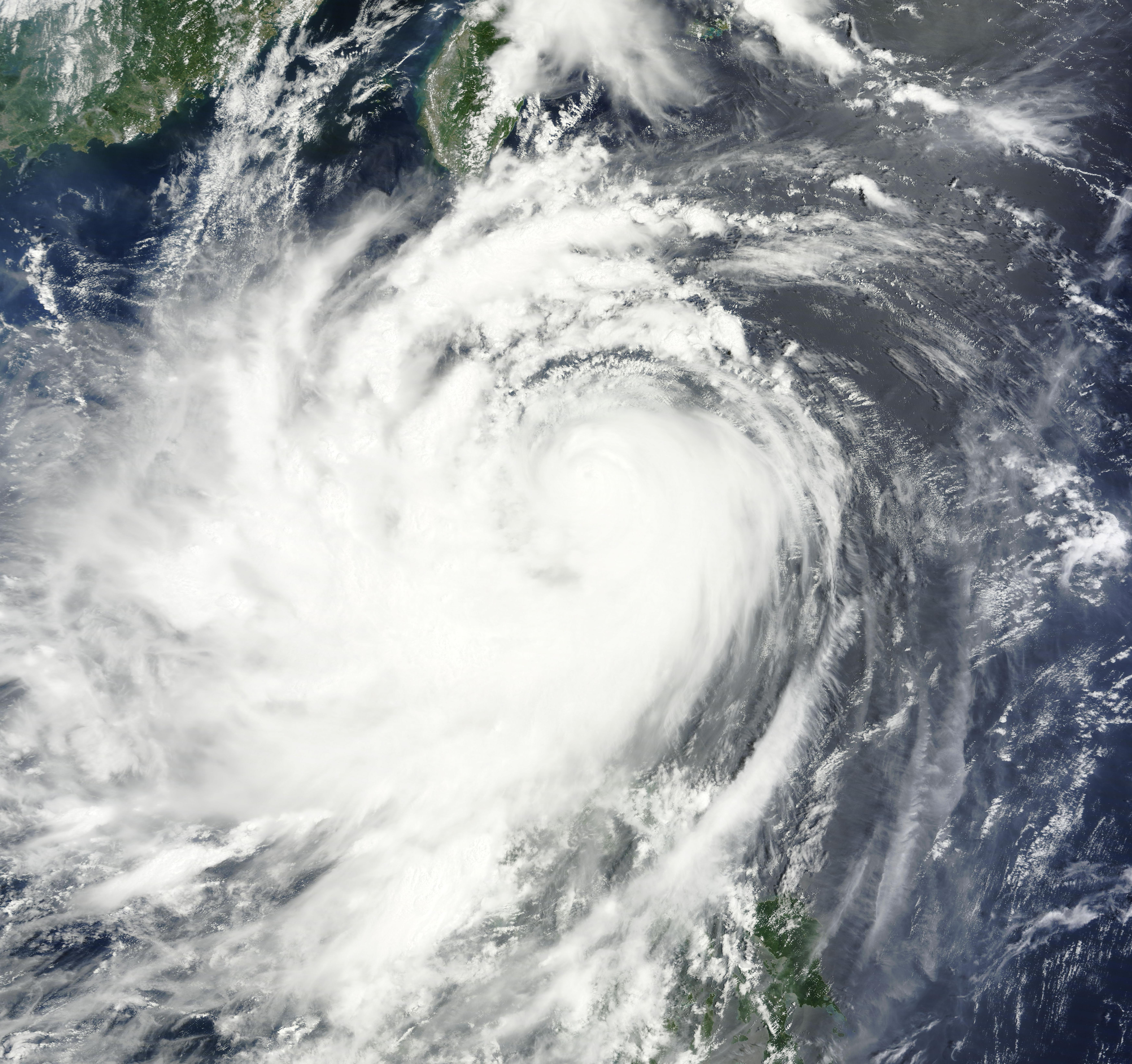 Typhoon Nanmadol (Mina) (14W) making landfall over the Philippines on August 27, 2011.